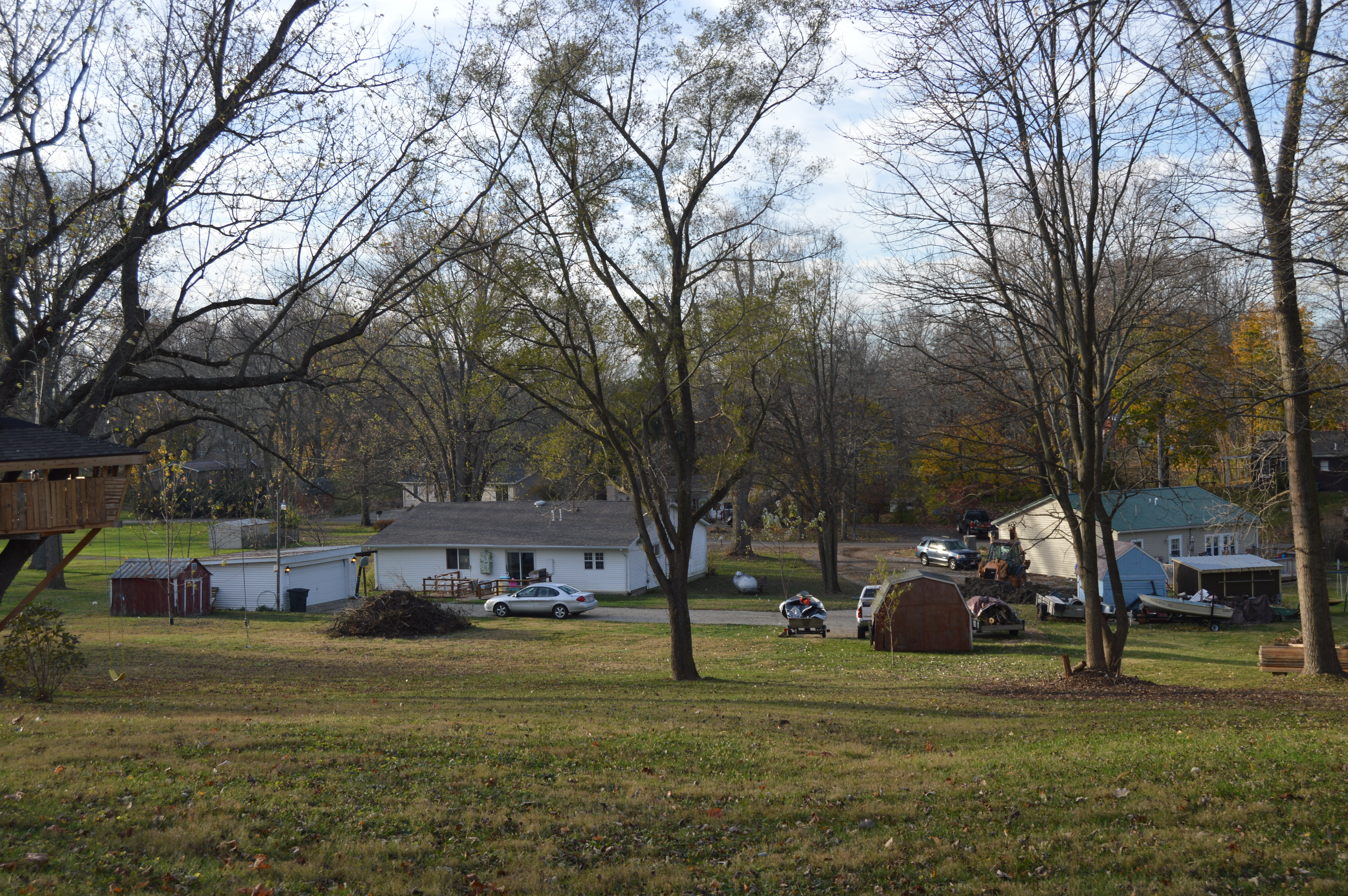 Houses on the northern side of East Drive in far southern Wayne Lakes, Ohio, United States.